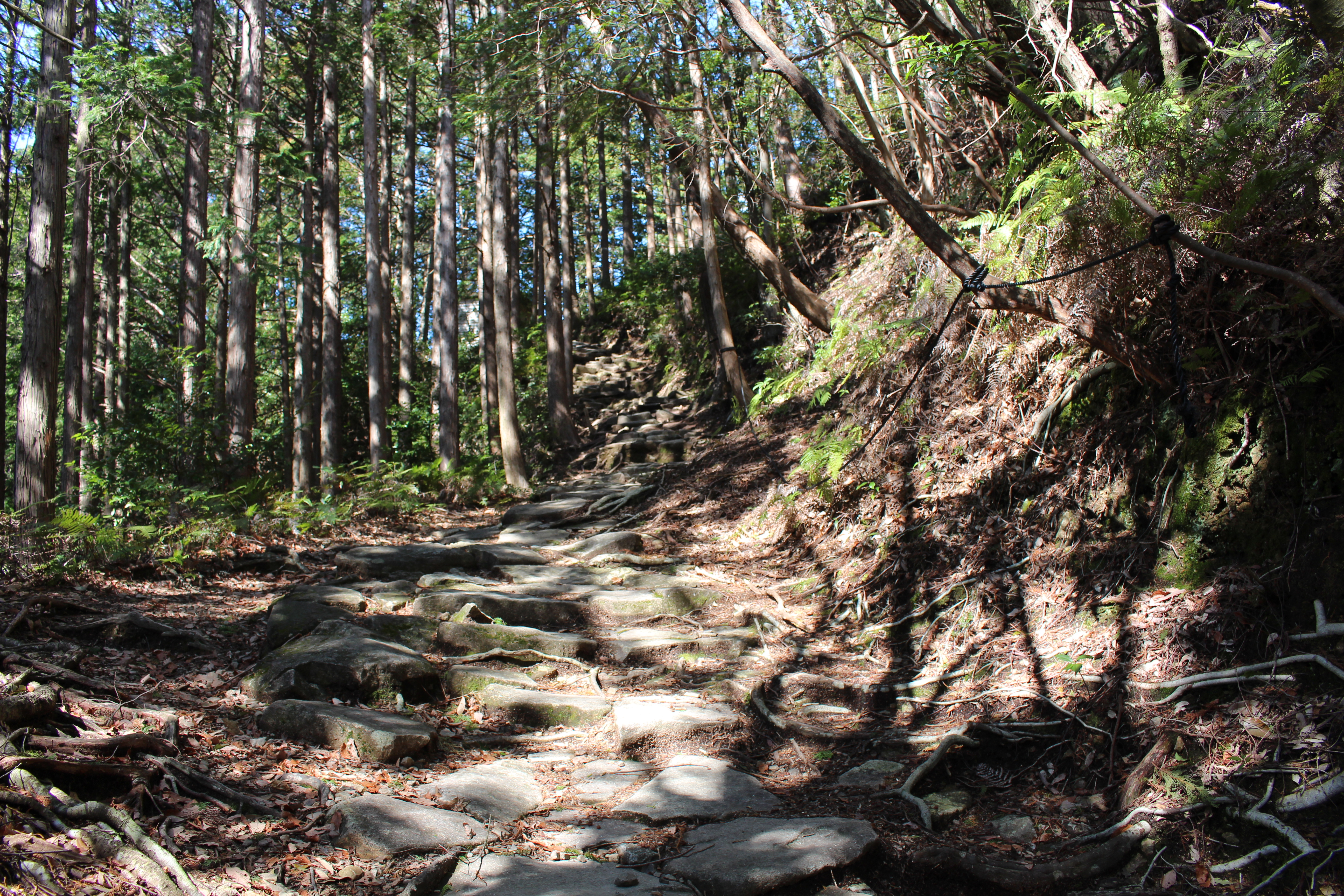 Magose pass route of Kumano Kodō, Owase, Mie prefecture, Japan.